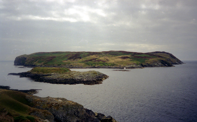 The Calf of Man The small islet between the Calf and the Isle of Man is known as Kitterland.